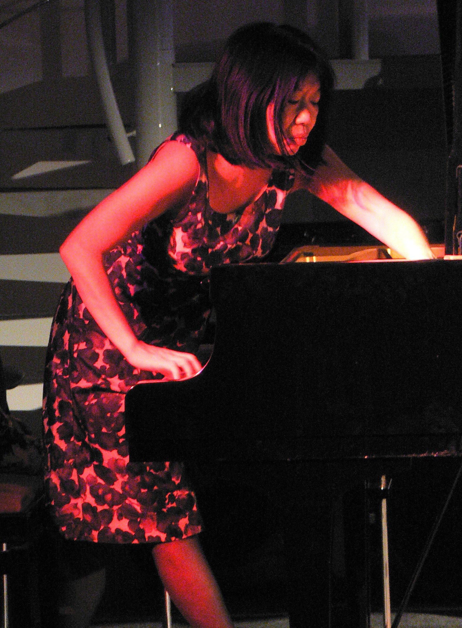 On the Outside